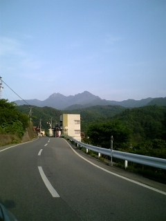 View of Kitaaiki. Mount Ogura in the background.